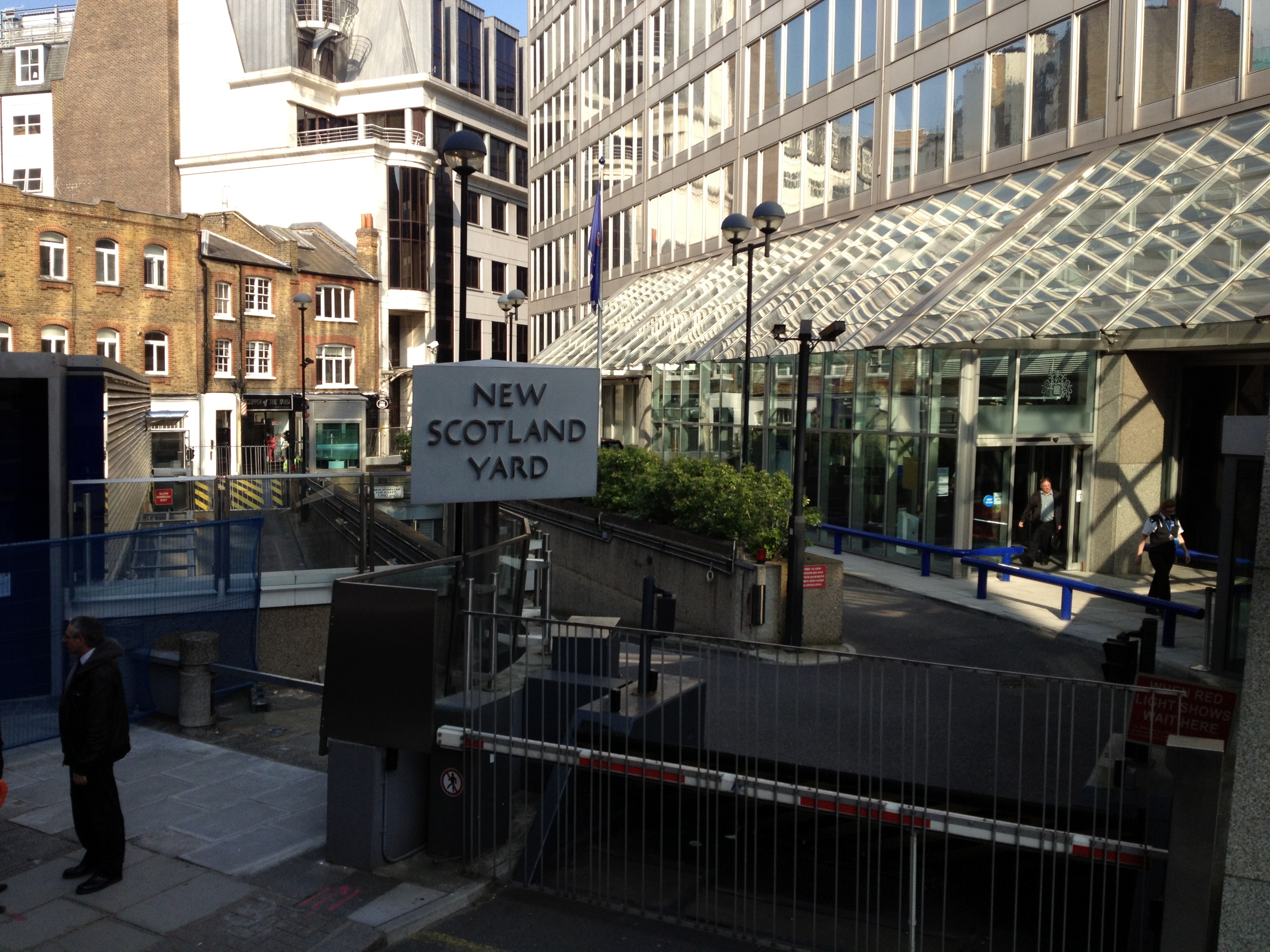 Entrance to the Metropolitan Police Service building at New Scotland Yard, London England